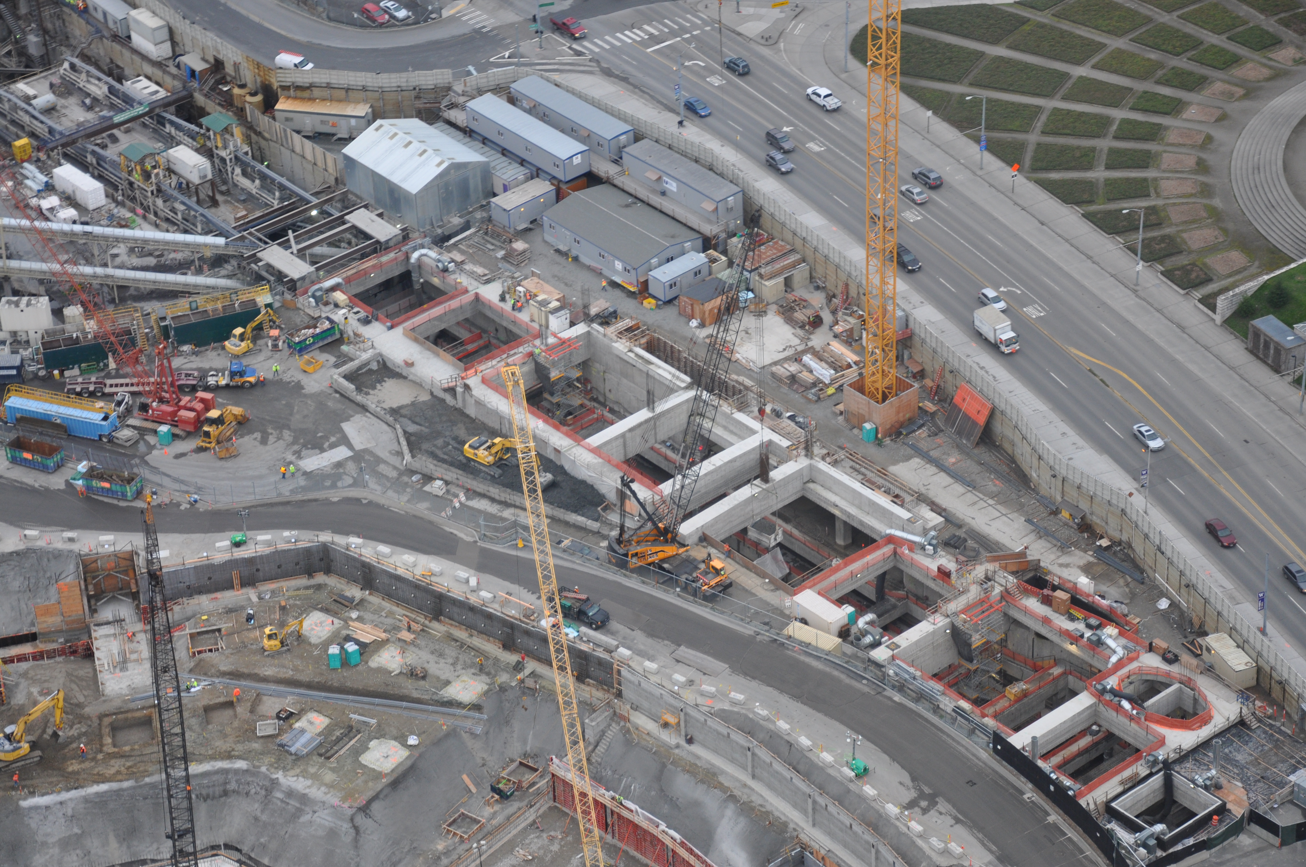 Aerial view of light rail construction at the future University of Washington station in Seattle, Washington, US.